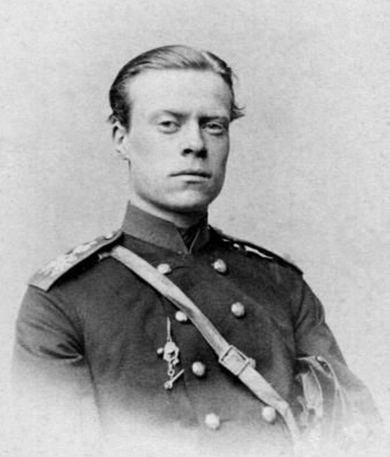 Prince Alexander Petrovich of Oldenburg. C1880